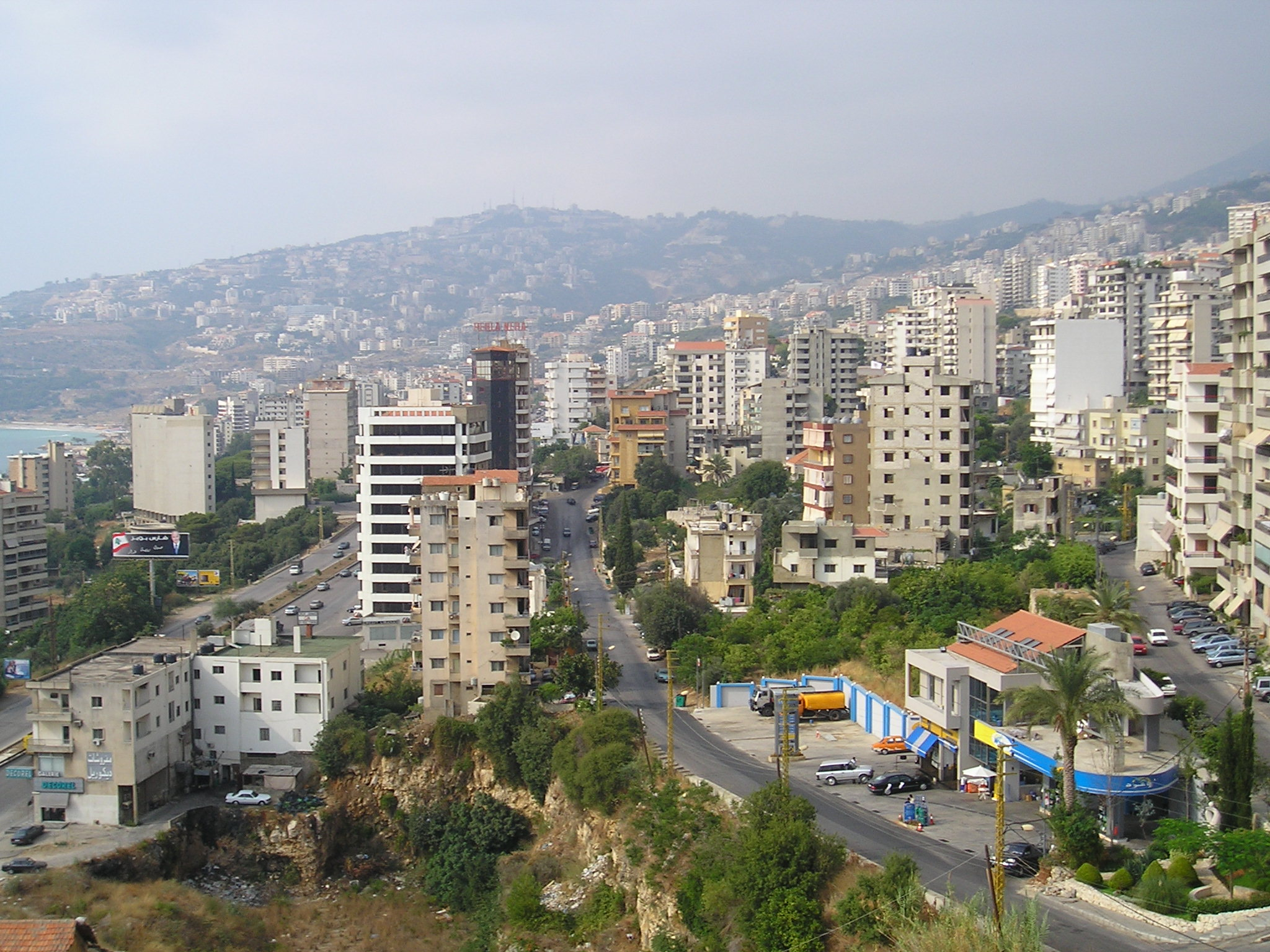 Jounieh, Lebanon - a view from the Téléférique to north